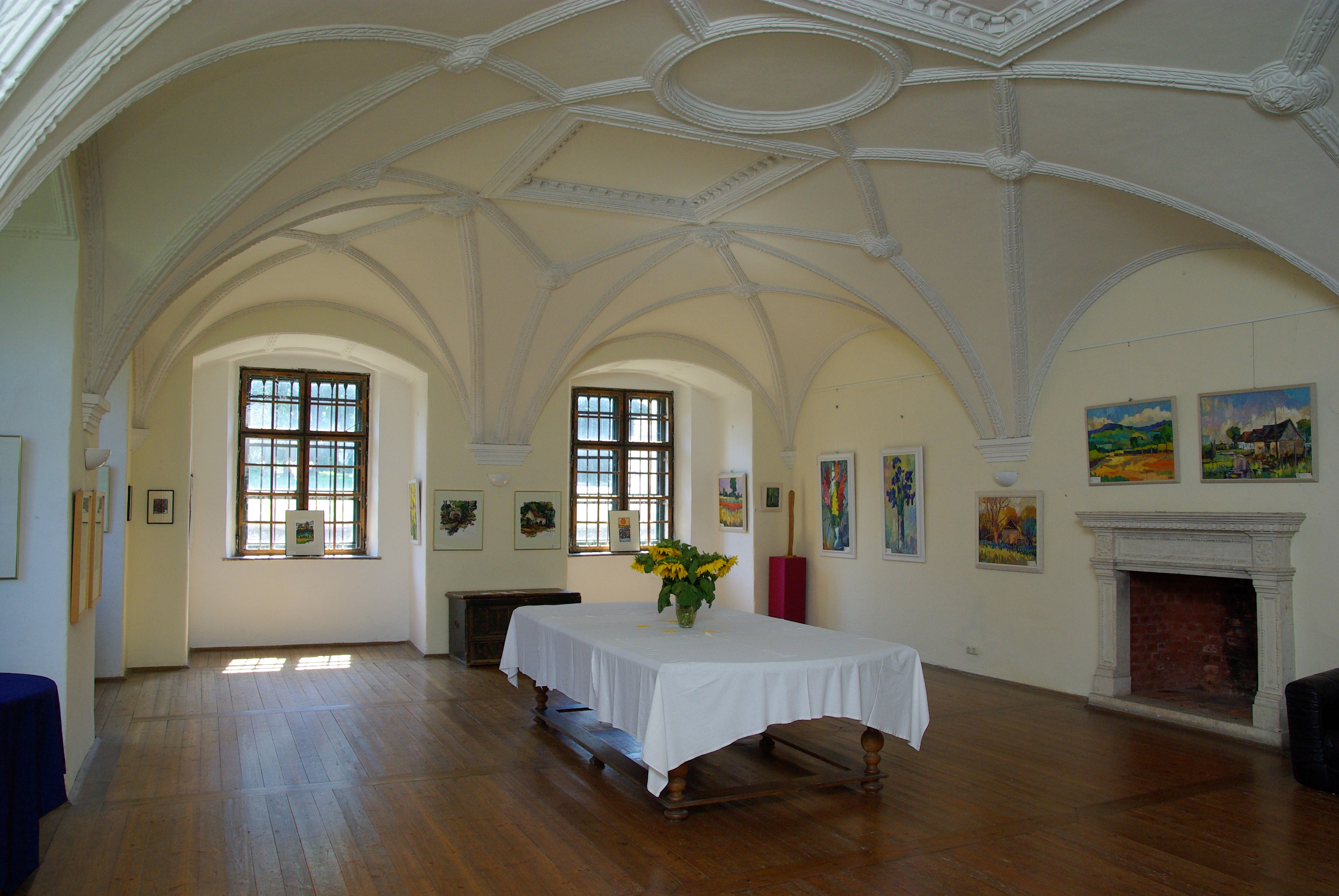 Schloss Greillenstein in Lower Austria. Exhibition room.